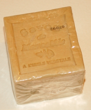 A piece of handicraft made soap Savon de Marseille, french old style. Source: Own Work Author: J.P.Lon Notes: Replacement for old image which infringed copyright and was about to be deleted(A better version will be uploaded in due course). =